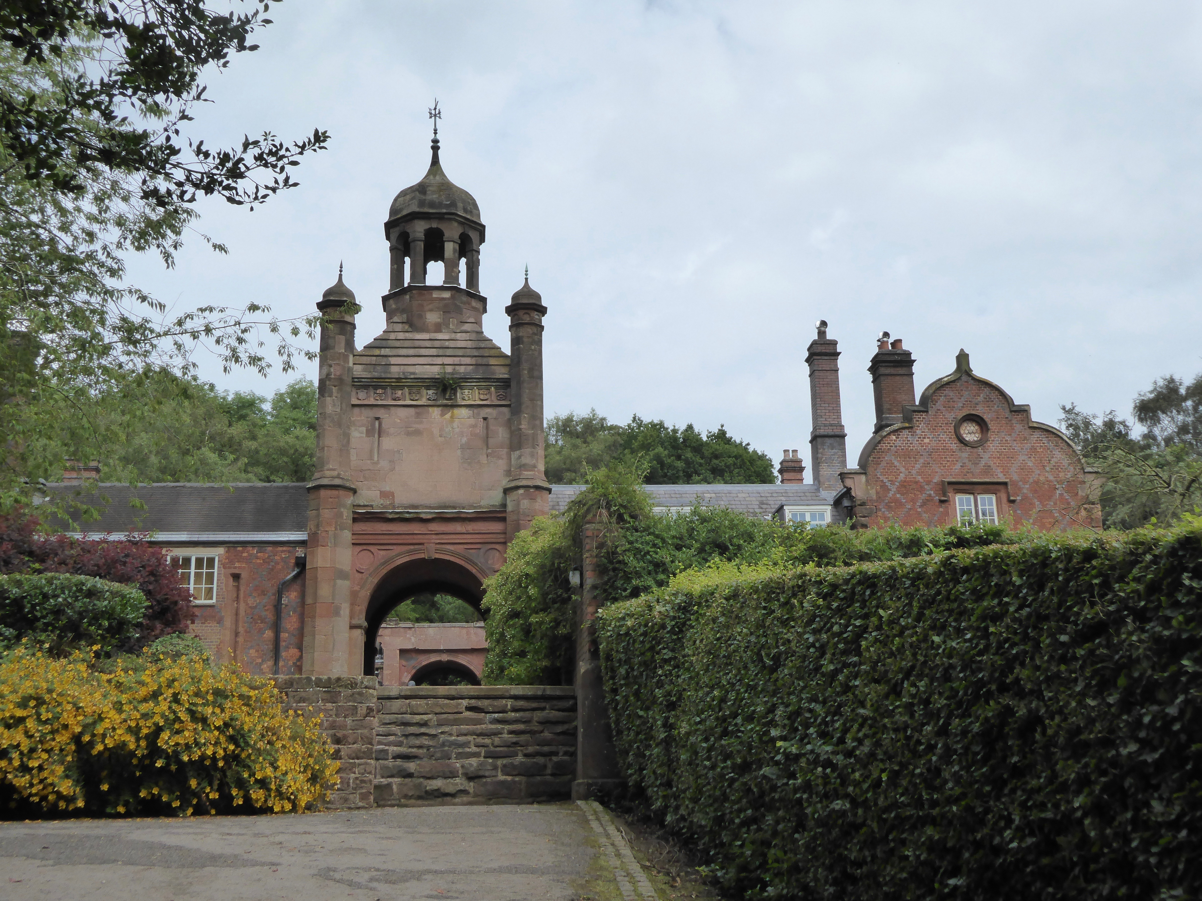 Keele University Clock House